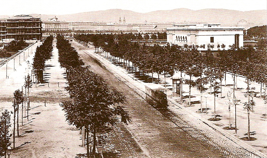 The Burgring (section of the Wiener Ringstraße) about 1872